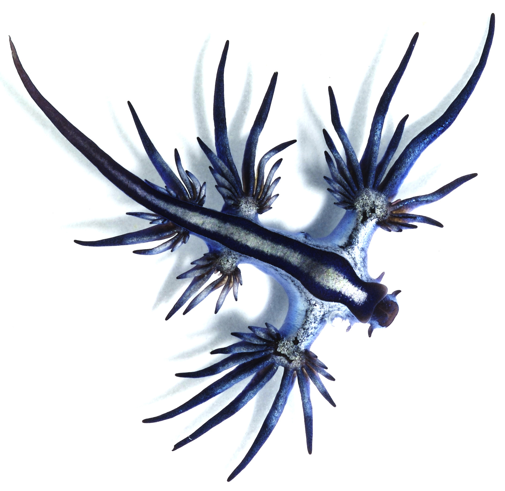 This Glaucus atlanticus was washed up on Surfers Paradise Beach in Queensland Australia. It is about 35 mm in length. The species swims upside-down and is accordingly countershaded for that position.